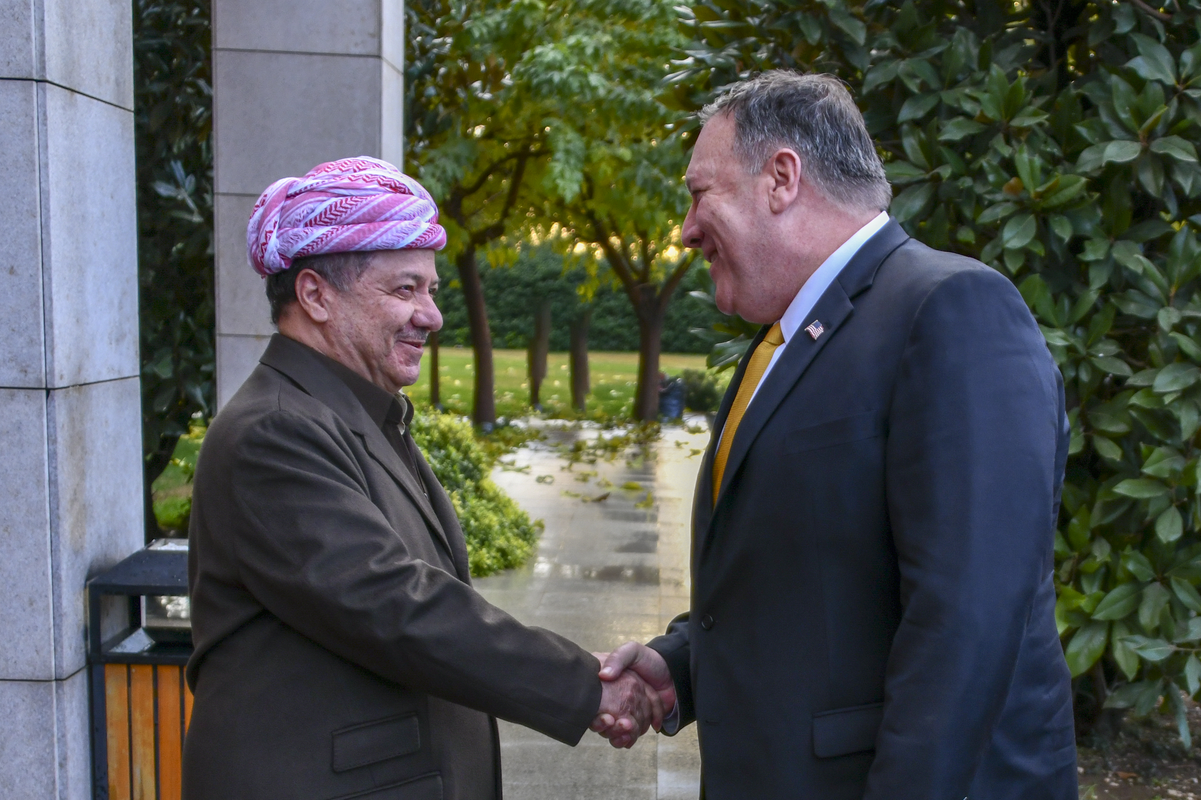 U.S. Secretary of State Michael R. Pompeo meets with Kurdistan Regional Government Prime Minister-designate Masoud Barzani, in Erbil, Iraq, on January 9, 2019. [State Department Photo/ Public Domain]